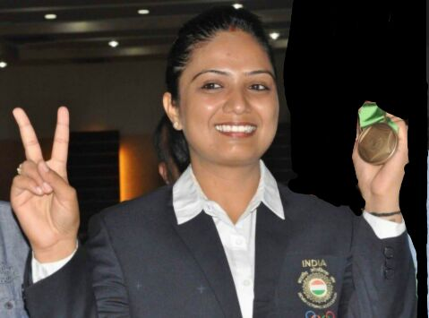 Indian sport shooter Shweta Chaudhry.